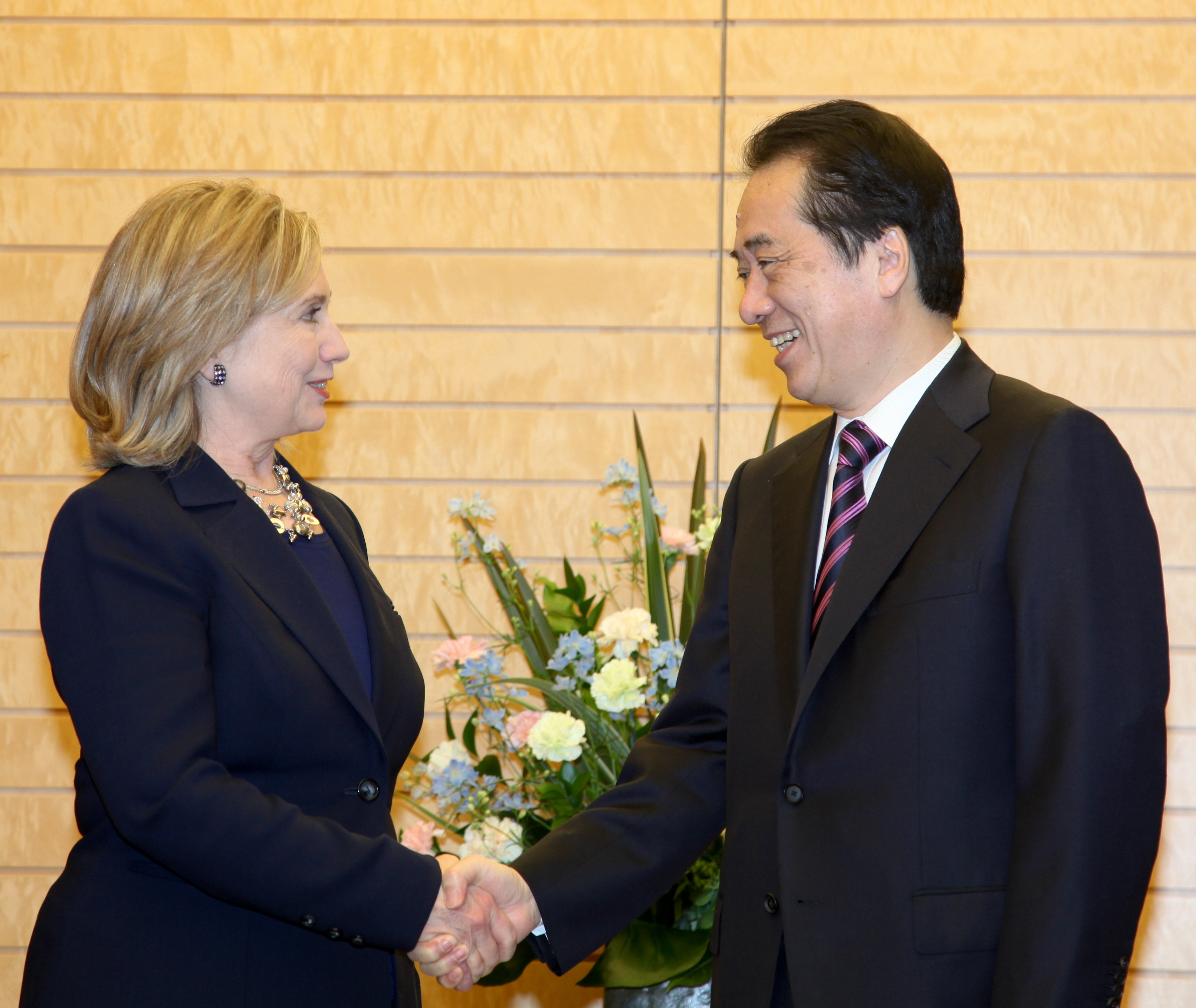 at his official residence (the Kantei)